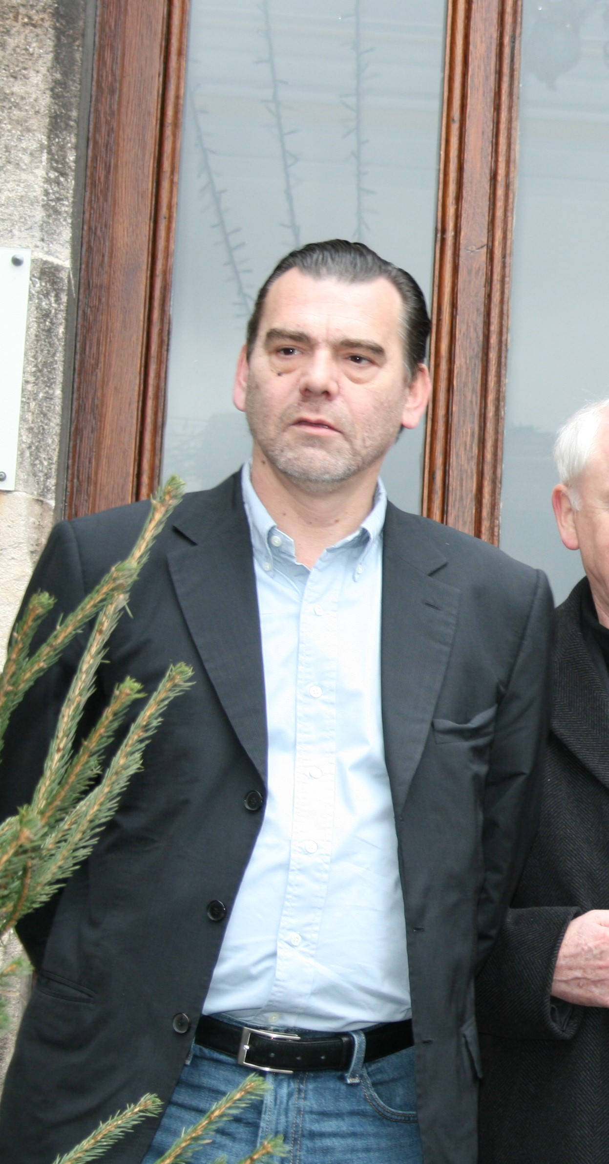 Lawyer Frank Berton coming out to a press conference in 2008 in Phalempin.